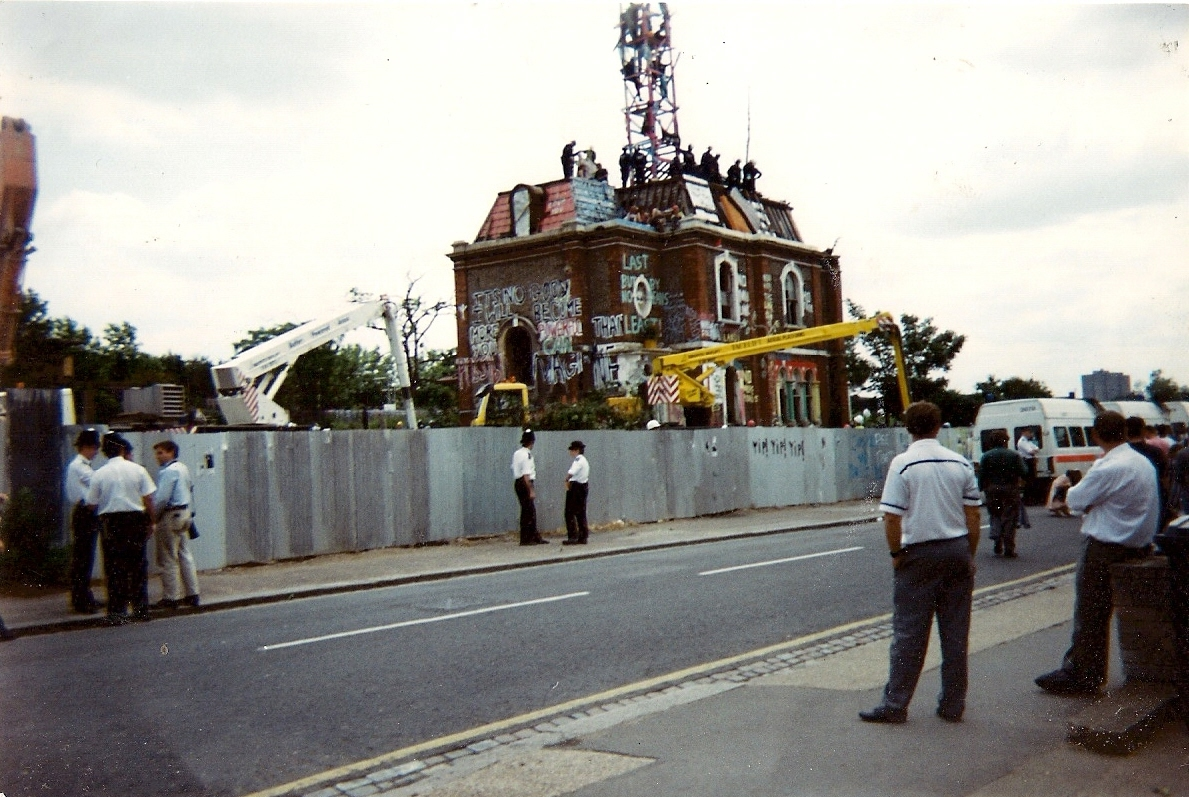 The eviction of "Munstonia", the last squatted house on Fillebrook Road in Leytonstone, London, England, during the M11 Link Road protests.